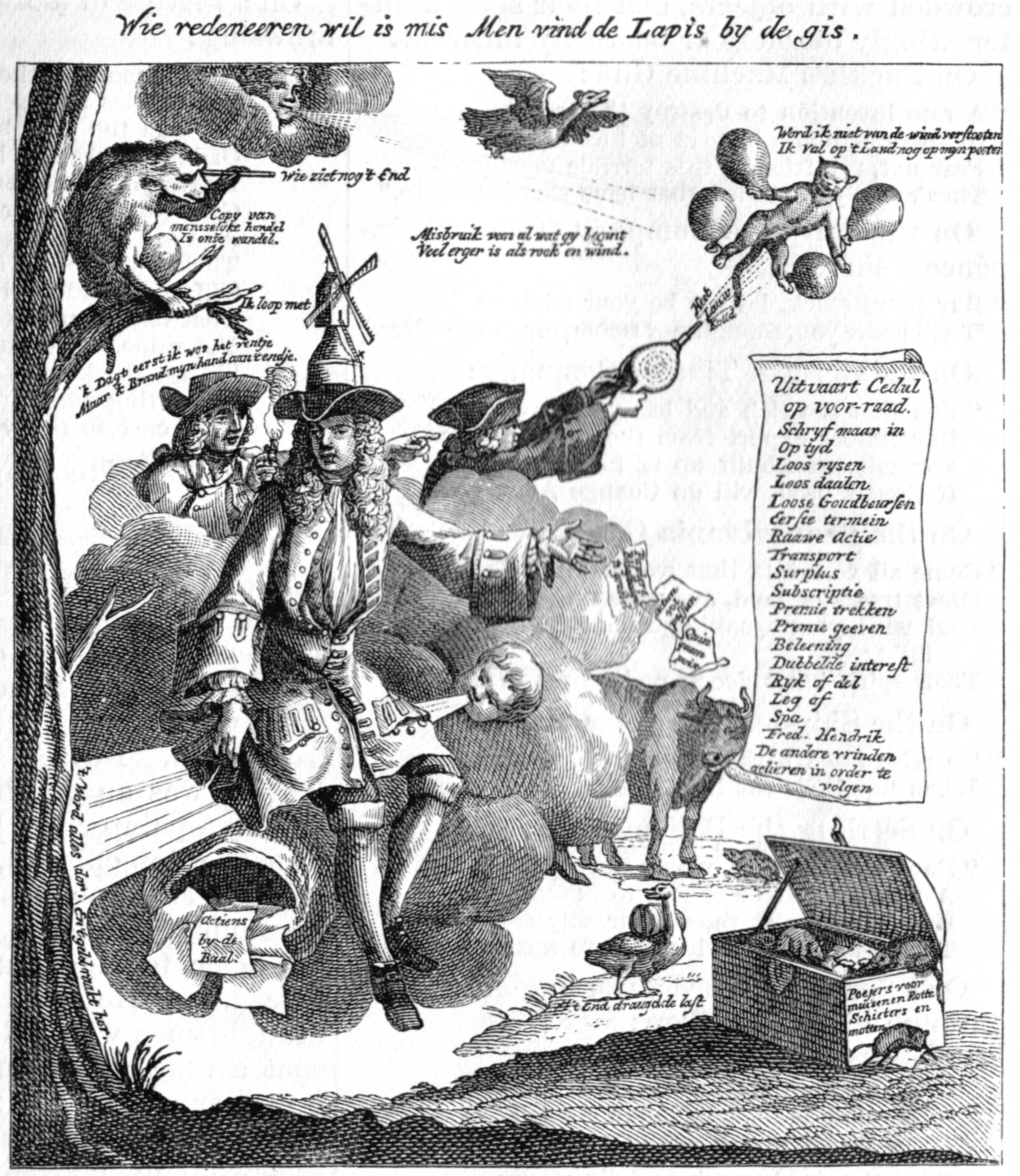 Political cartoon of Scottish speculator John Law. Originally published in 1720.